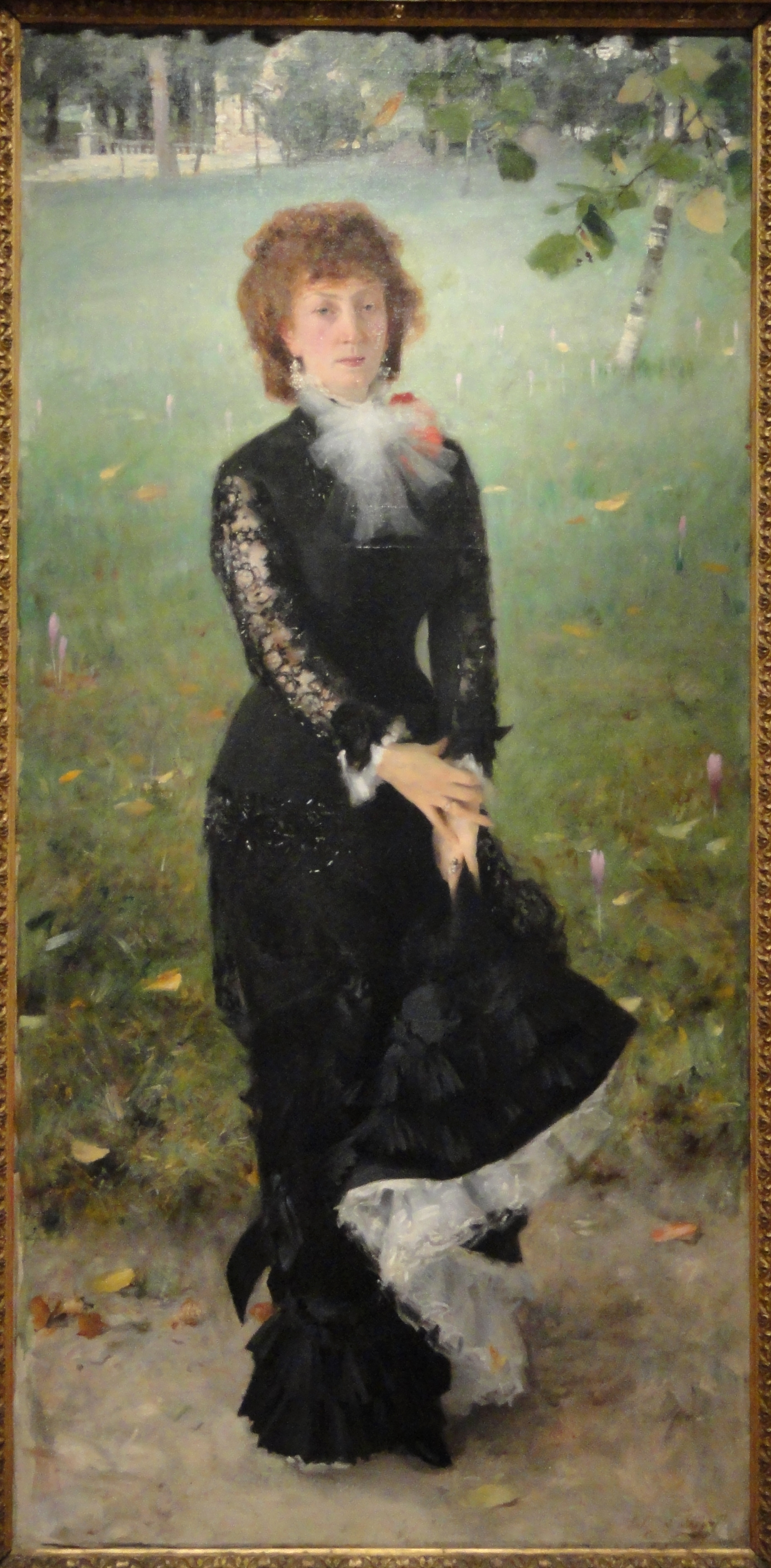 Painting exhibited in the Corcoran Gallery of Art, Washington, D.C., USA. There were no prohibitions against photography in the museum. This artwork is in the public domain because the artist died more than 70 years ago.